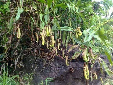 Pitcher plant sanctuary at Baghmara located at Dilsa Hill.